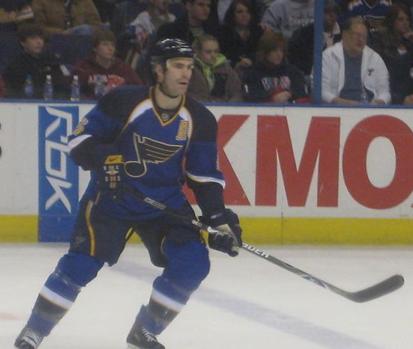 Picture of Barret Jackman.